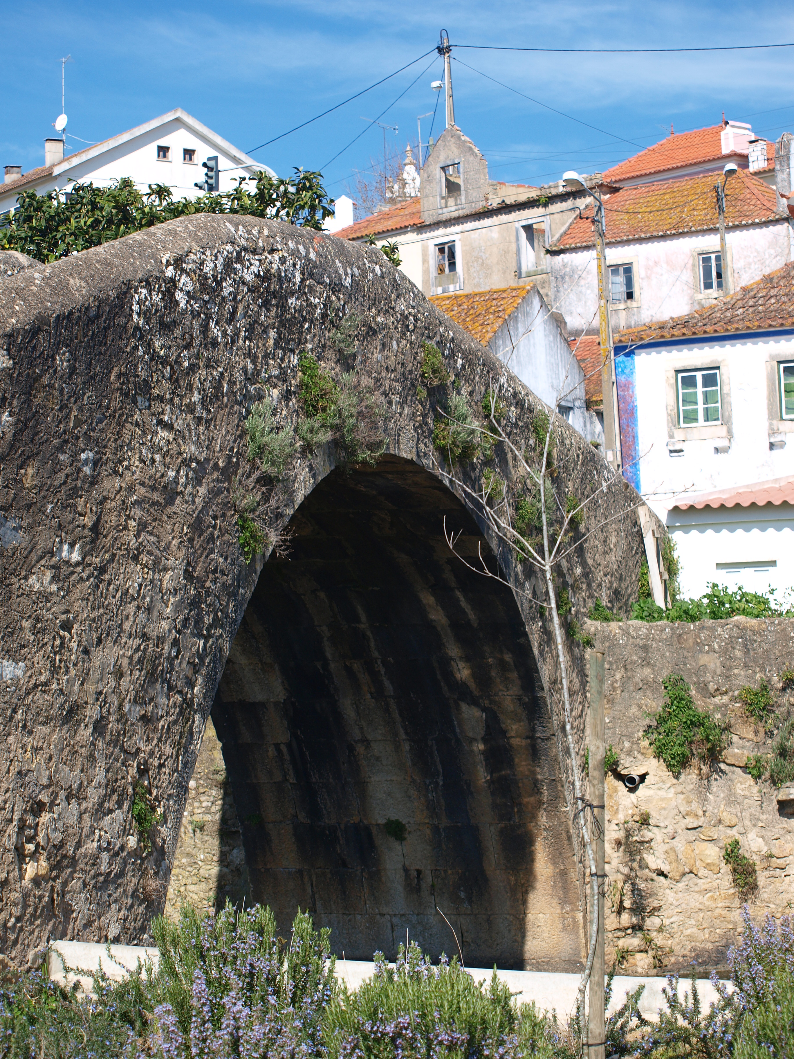 Ancient bridge at Cheleiros, Mafra, Portugal.